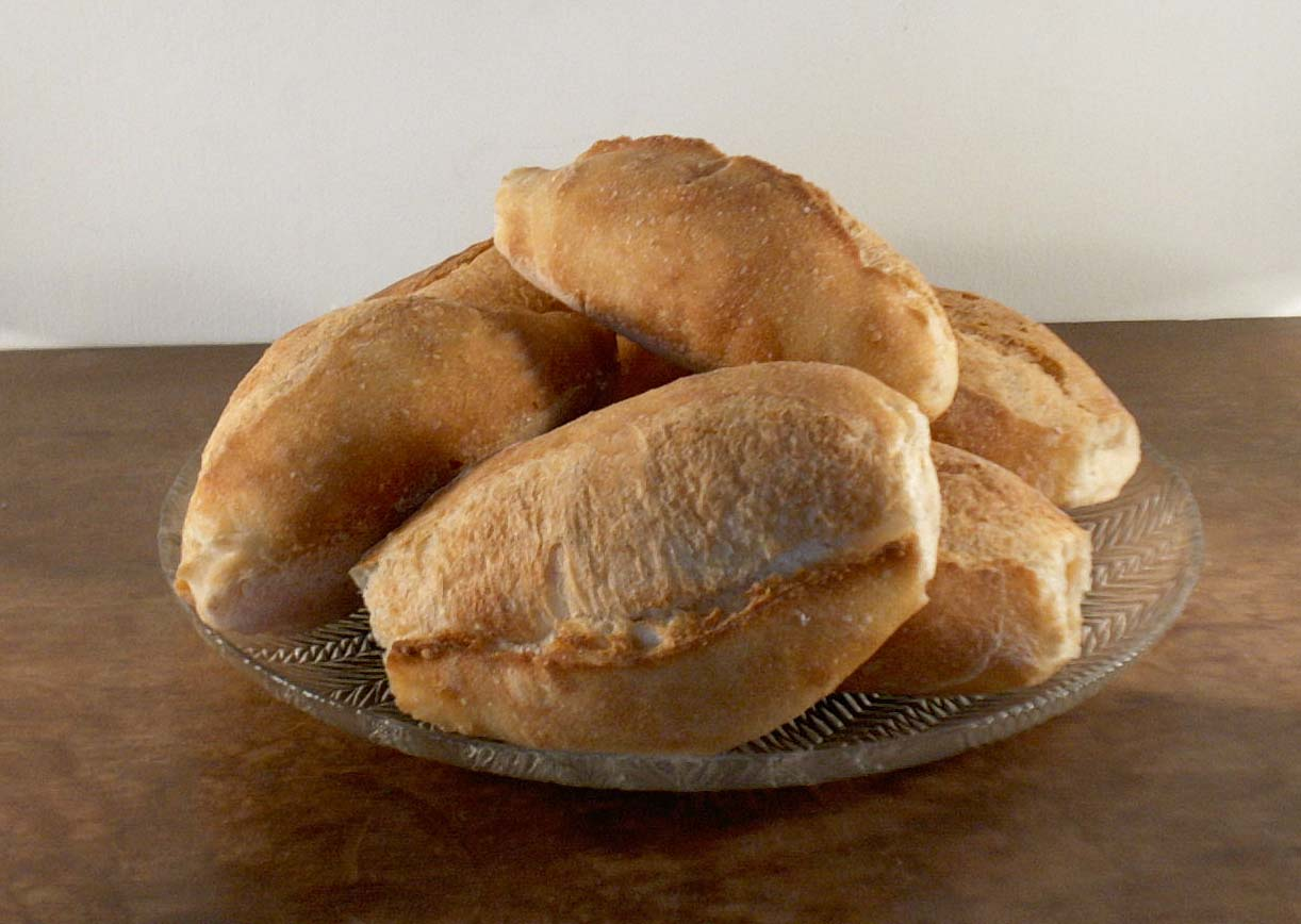 Bread variety called Marraqueta paceña, from La Paz, Bolvia.